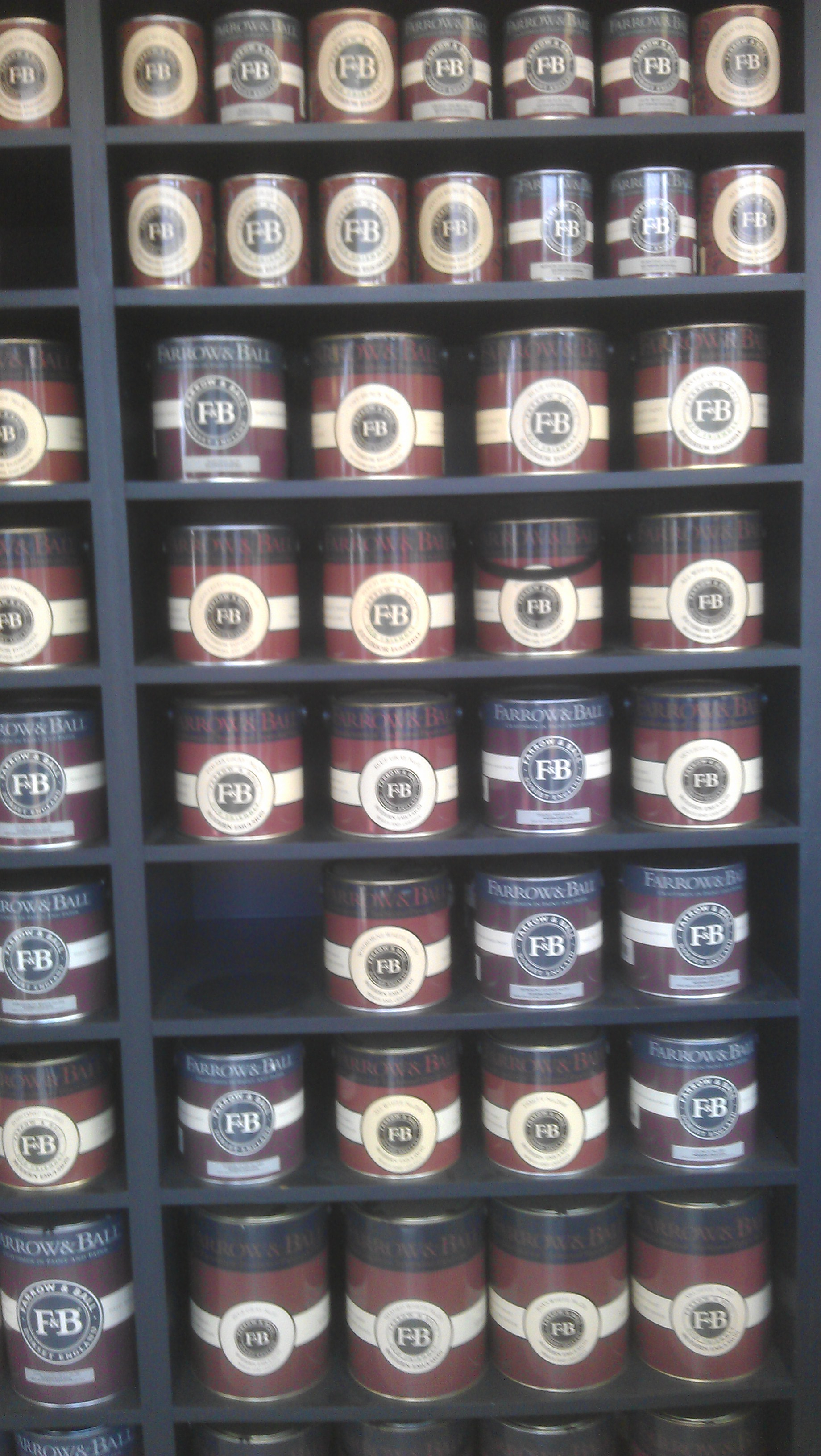 Farrow & Ball paint, In Farrow & Ball showroom (aka Eltham DIY), 118-120 Westmount Rd, London, Greater London SE9